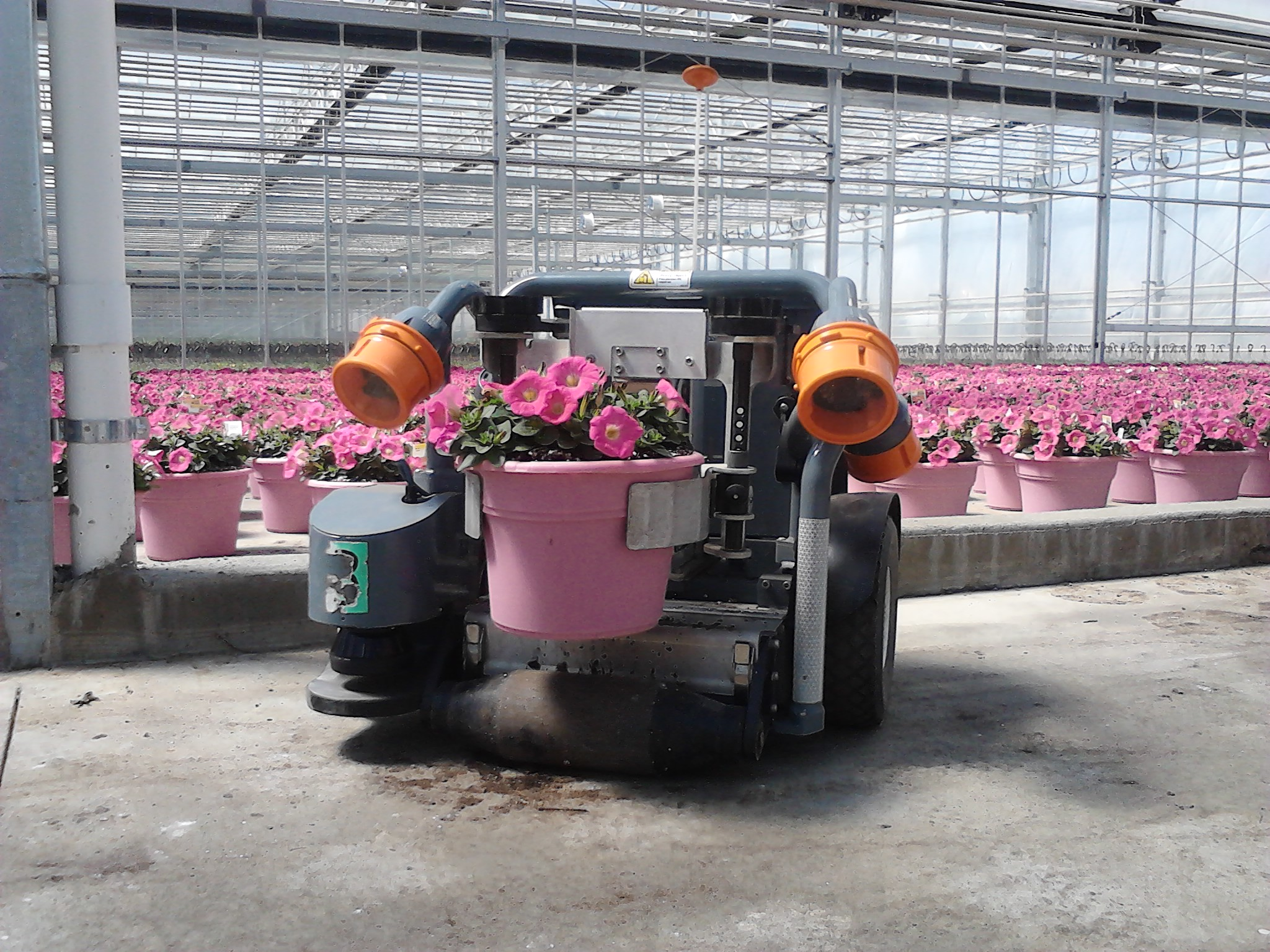 Harvest Automation HV-100 Robot holding plant